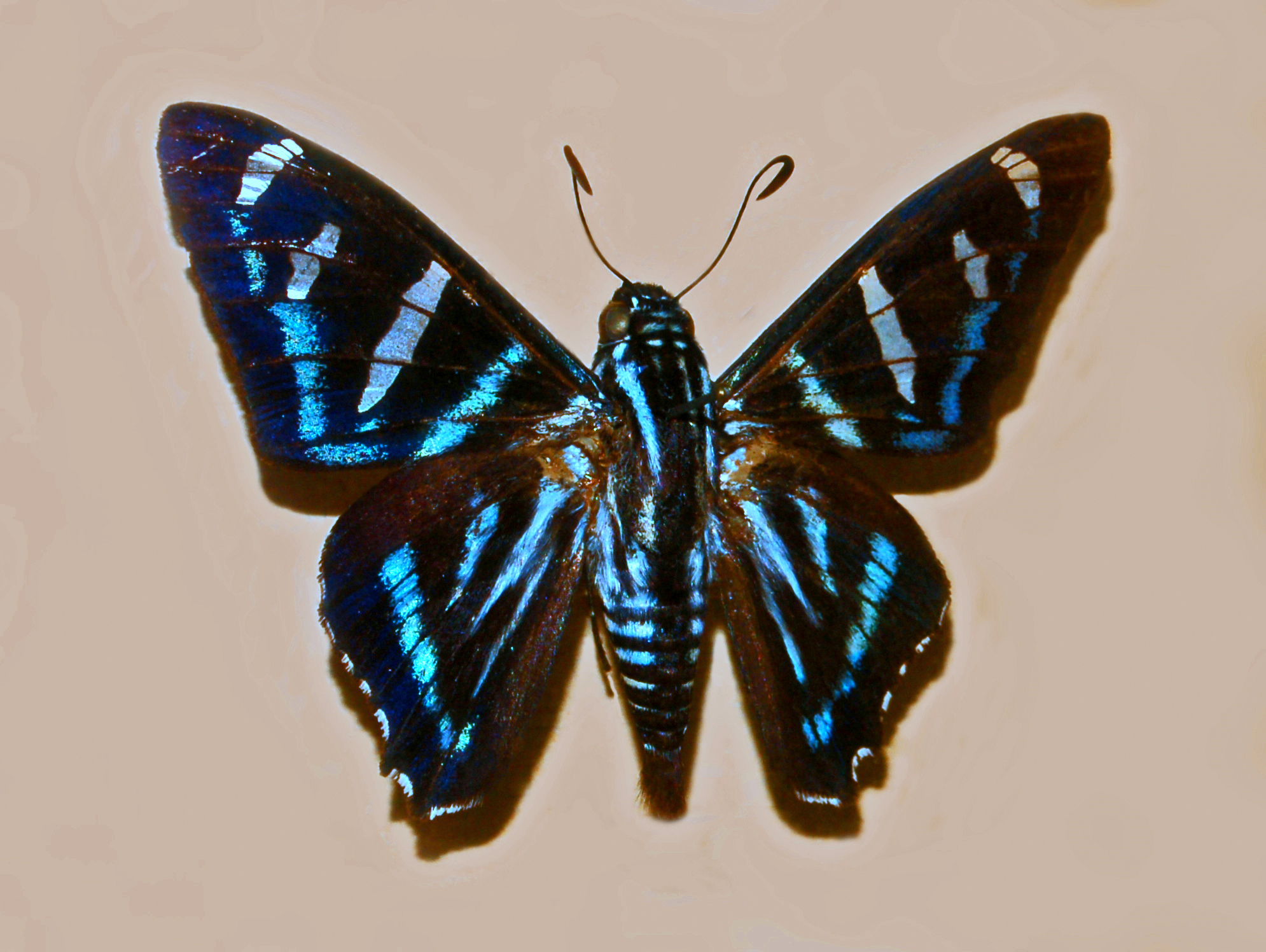 Jemadia menechmus from Peru. Mounted specimen